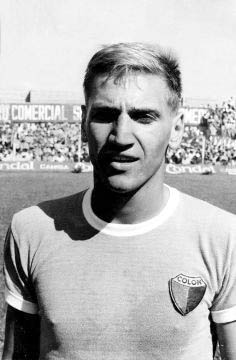 A young Enzo Trossero in Colòn, where he debuted.